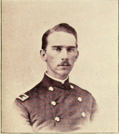 Major Oliver Bosbyshell of the 48th Pennsylvania Volunteers, later Superintendent of the Mint at Philadelphia